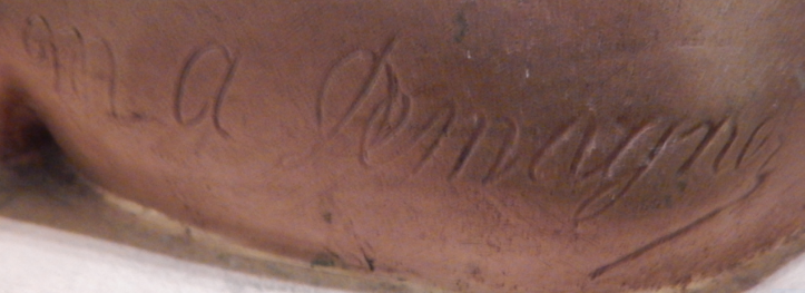 A circa 1898 signature example for French sculptor Marie-Antoinette Demagnez as it appears on a bronze sculpture.